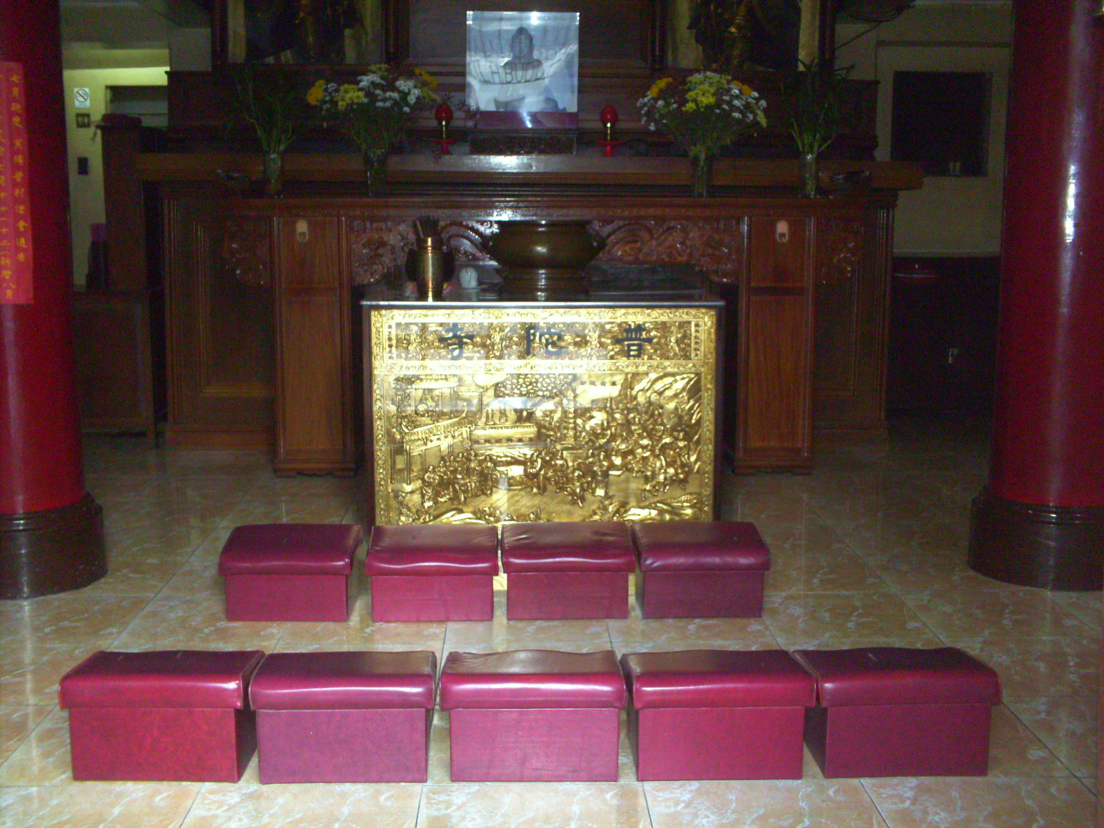 Kneelers at a Buddhist Temple in Tondo.